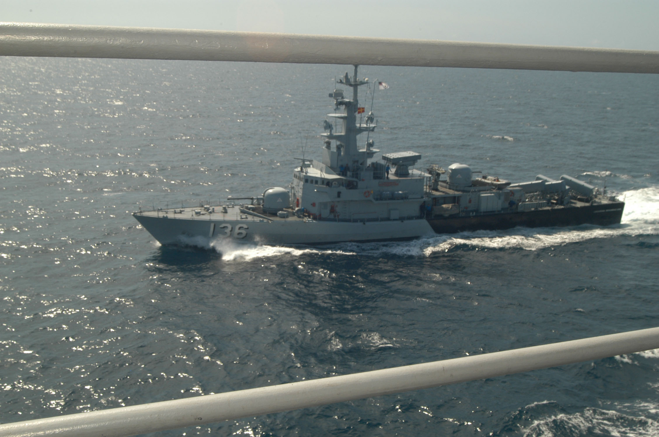 040719-N-4104L-015 South China Sea (July 19, 2004) - Royal Malaysian Navy corvette Laksamana Muhammad Amin comes alongside USS Fort McHenry (LSD 43) during the at-sea portion of the Malysia phase of exercise Cooperation Afloat Readiness and Training (CARAT). Laksamana Muhammad Amin and two other RMN ships, along with the Cooperation Afloat Readiness and Training (CARAT) Task Group, are conducting a variety of operational events during the underway phase of the exercise. CARAT is a regularly scheduled series of bilateral training exercises with several Southeast Asia nations designed to enhance the interoperability of the respective sea services. U.S. Navy photo by Chief Journalist Melinda Larson (RELEASED).